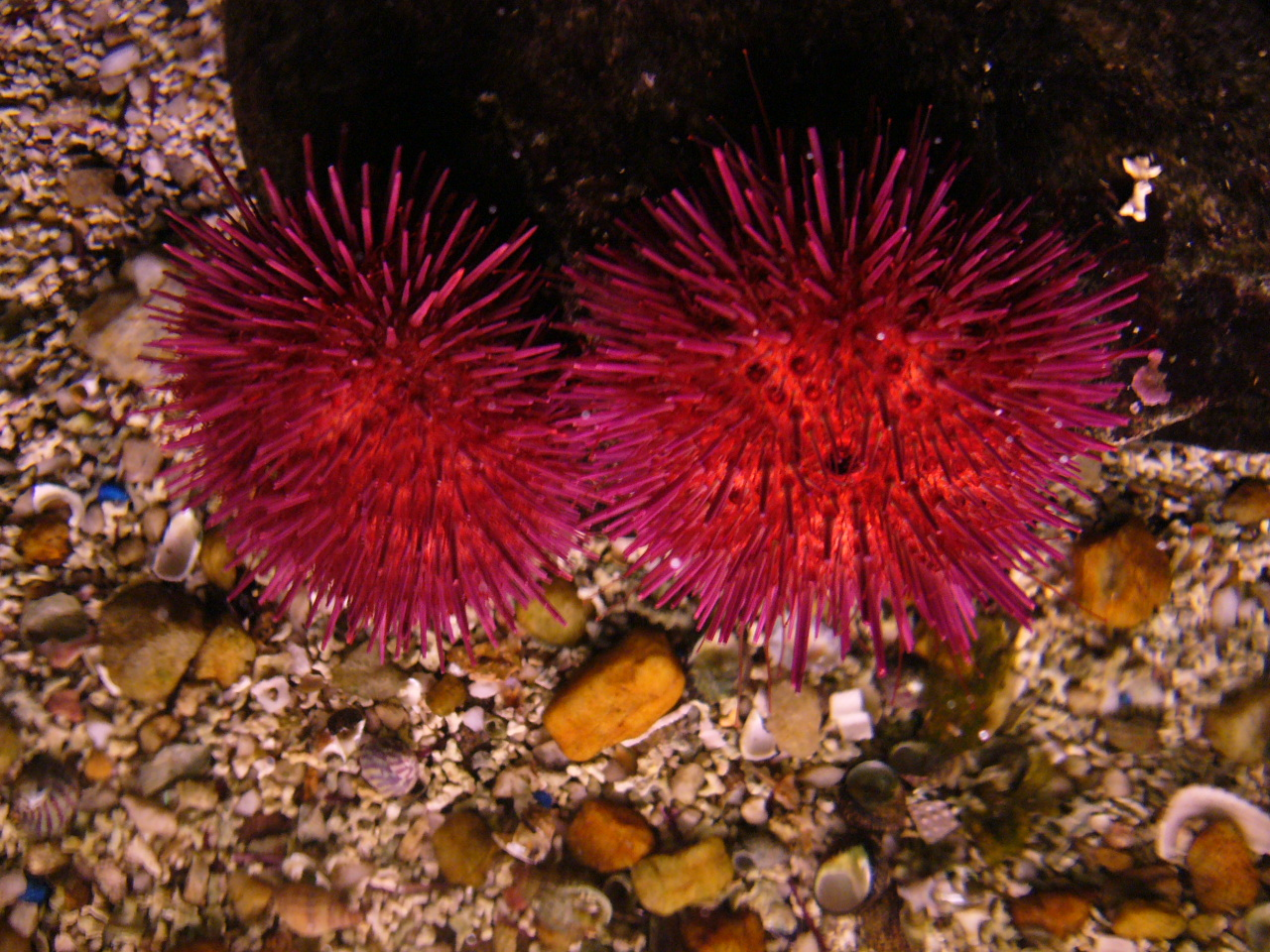 Paracentrotus lividus (sea urchin) in Sala Maremagnum of Aquarium Finisterrae (House of the Fishes), in Corunna, Galicia, Spain.